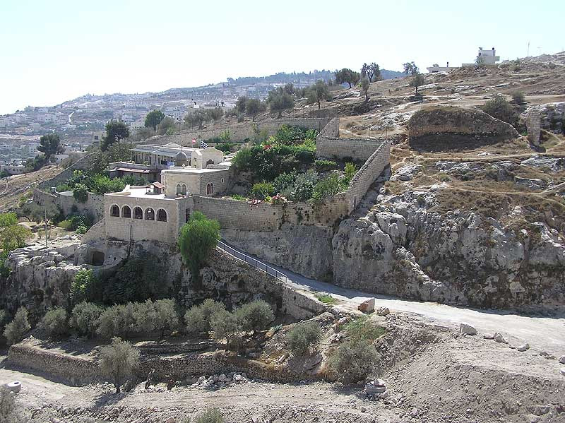 Akeldama